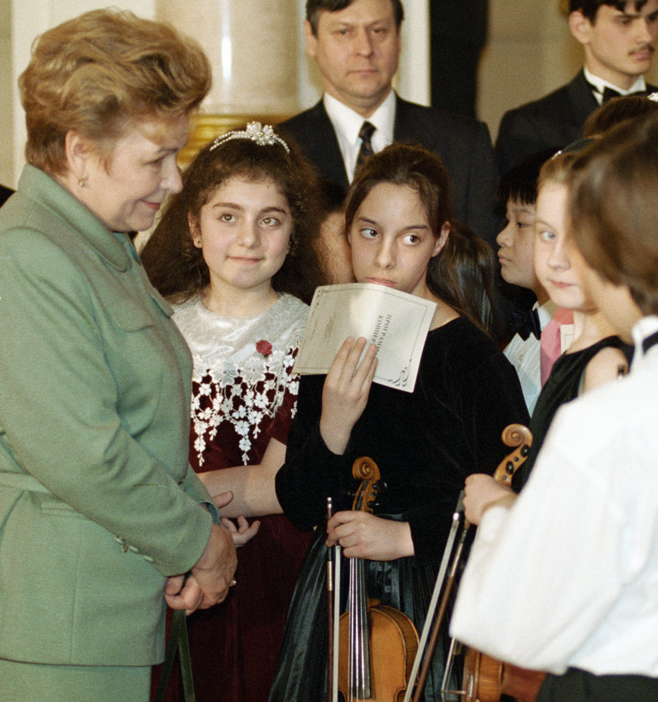 “Naina Yeltsin”. Naina Yeltsin, the Russian President's wife, talks to young conferees on March 8, Women's Day